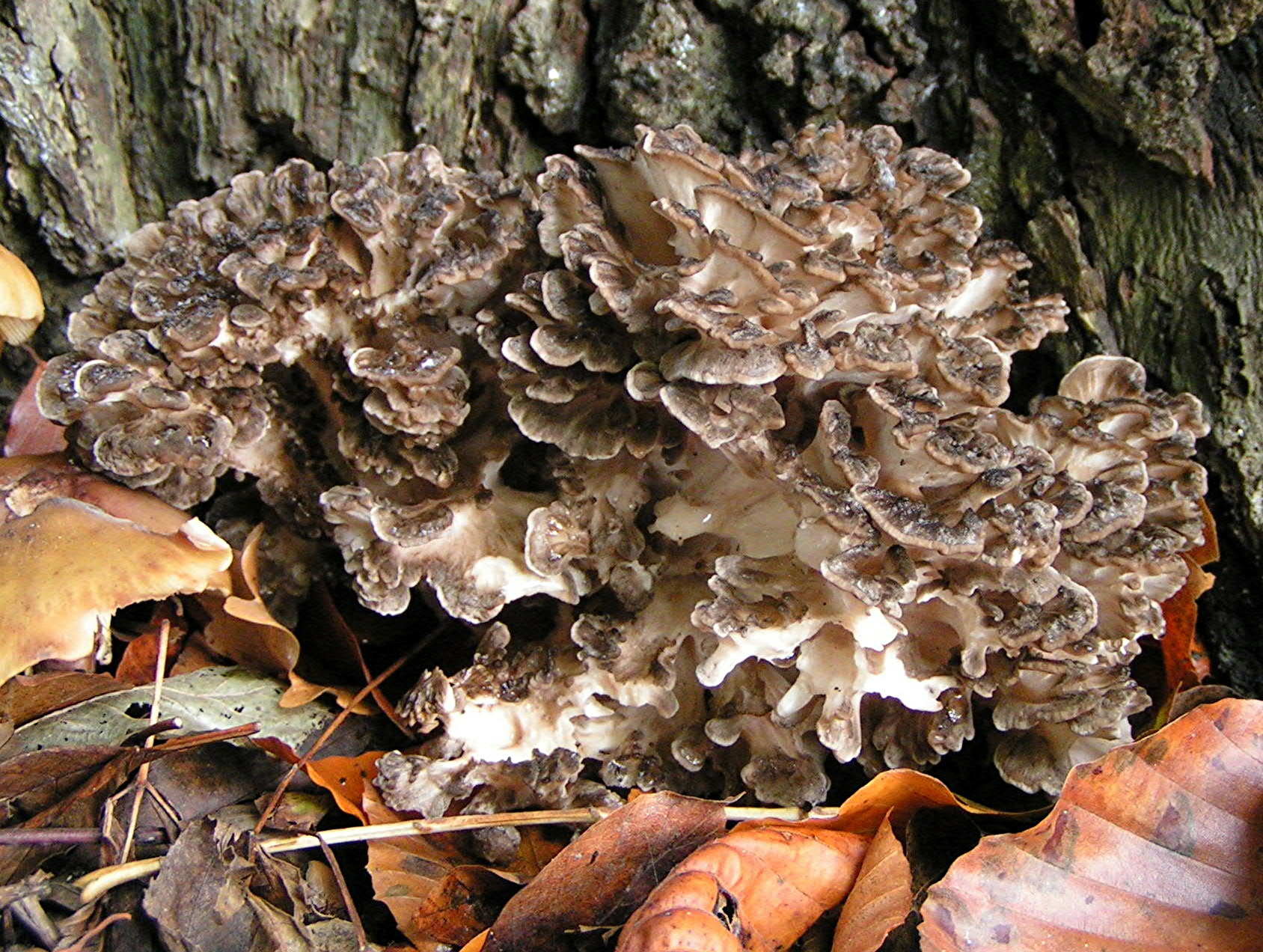 Grifola frondosa Eikhaas by Pethan 10-2004 Amelisweerd, Netherlands